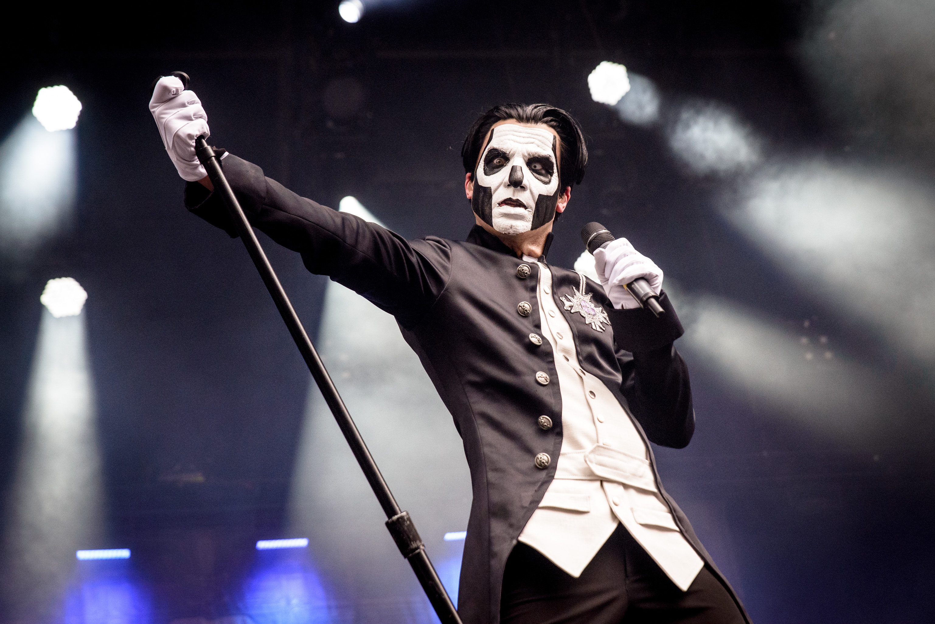 Ghost Live @ Rockavaria 2016